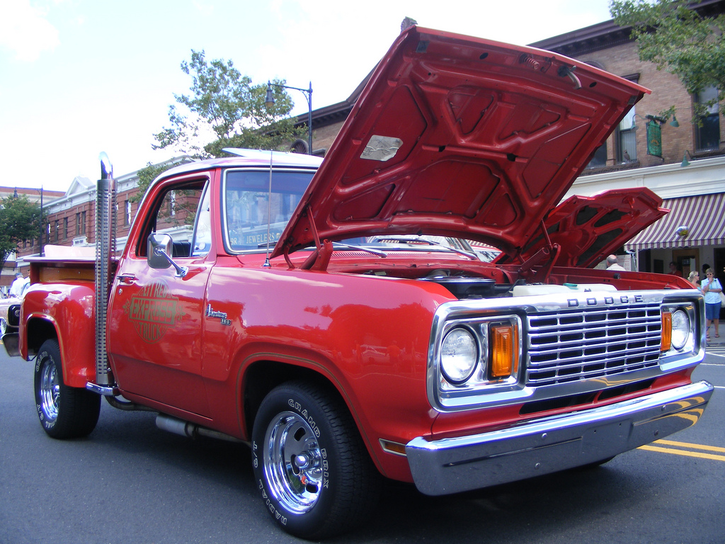 Dodge Li'l Red Express Truck